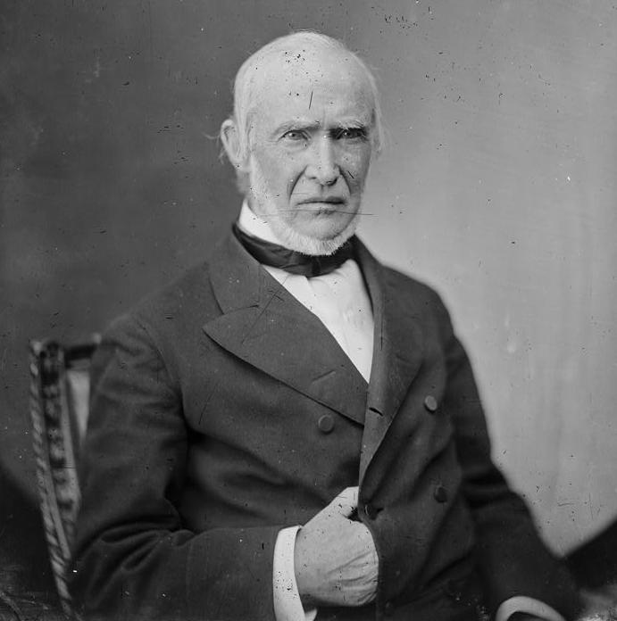 New York politician Charles O'Conor.